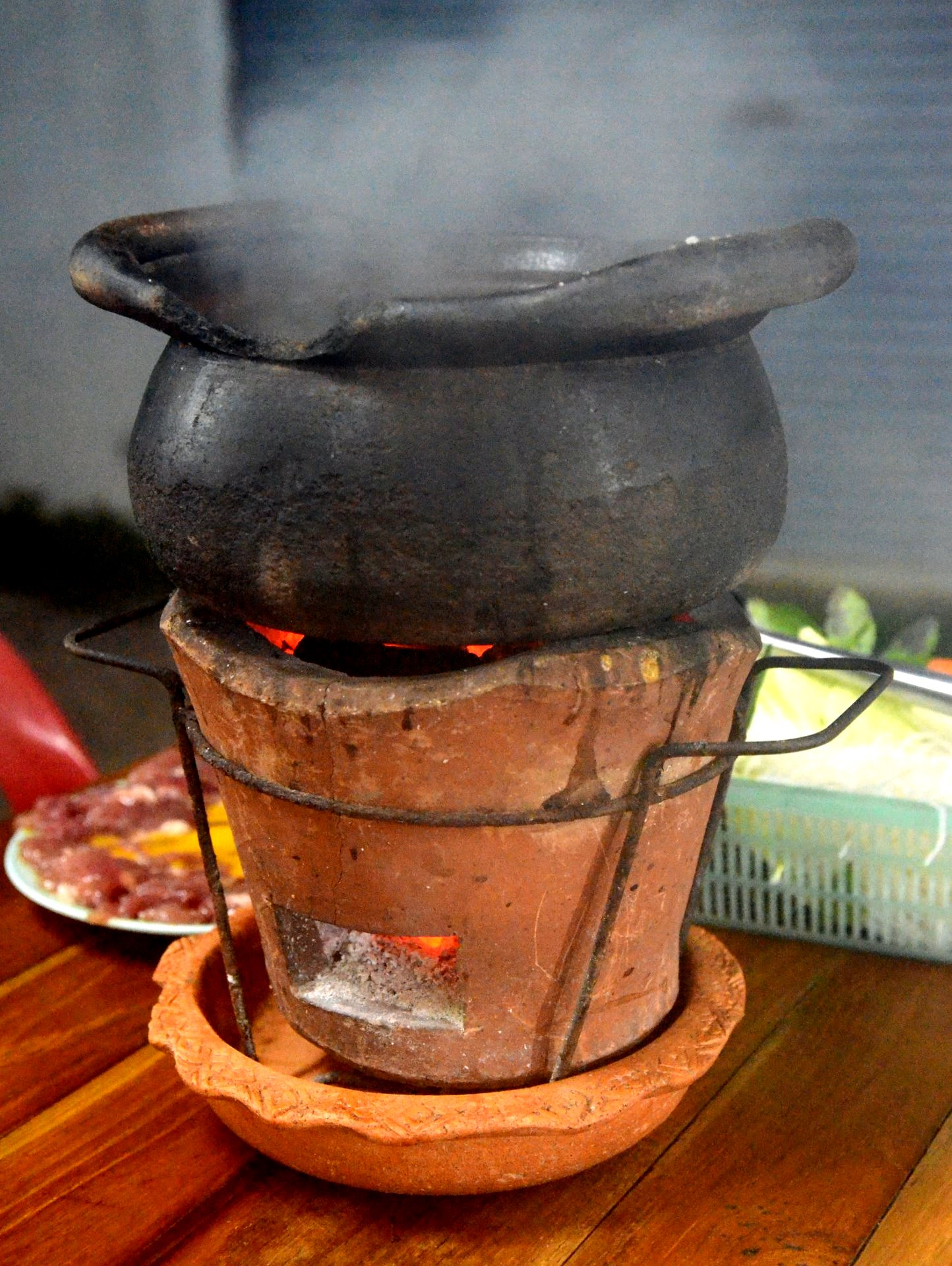 Chim chum (Thai script: จิ้มจุ่ม) is a Thai style hot pot where the ingredients (meats, vegetables, mushrooms, noodles) are cooked in a clear herb broth of lemongrass, galangal and kaffir lime leaves. Additionally, the broth can contain other herbs such as bai kraphao (Thai basil), spices such as chillies, or be a meat broth using, for instance, pork ribs as one of the base ingredients. Traditionally an earthenware pot is used as here in the image.